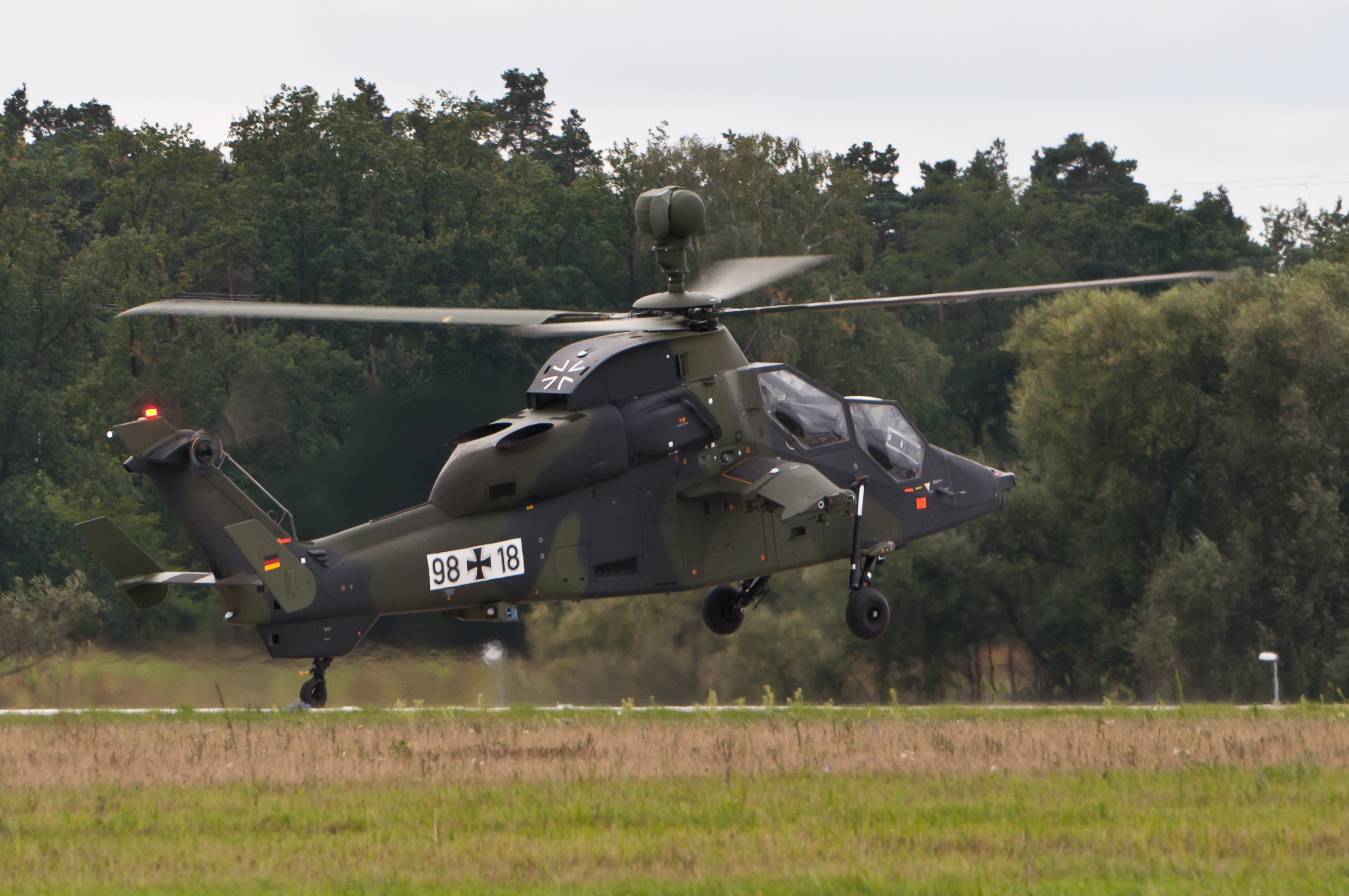 Eurocopter EC 665 Tiger UHT, reg. 98-18 (cn 1004), of the German Army, flying a display at ILA Berlin Air Show 2012.